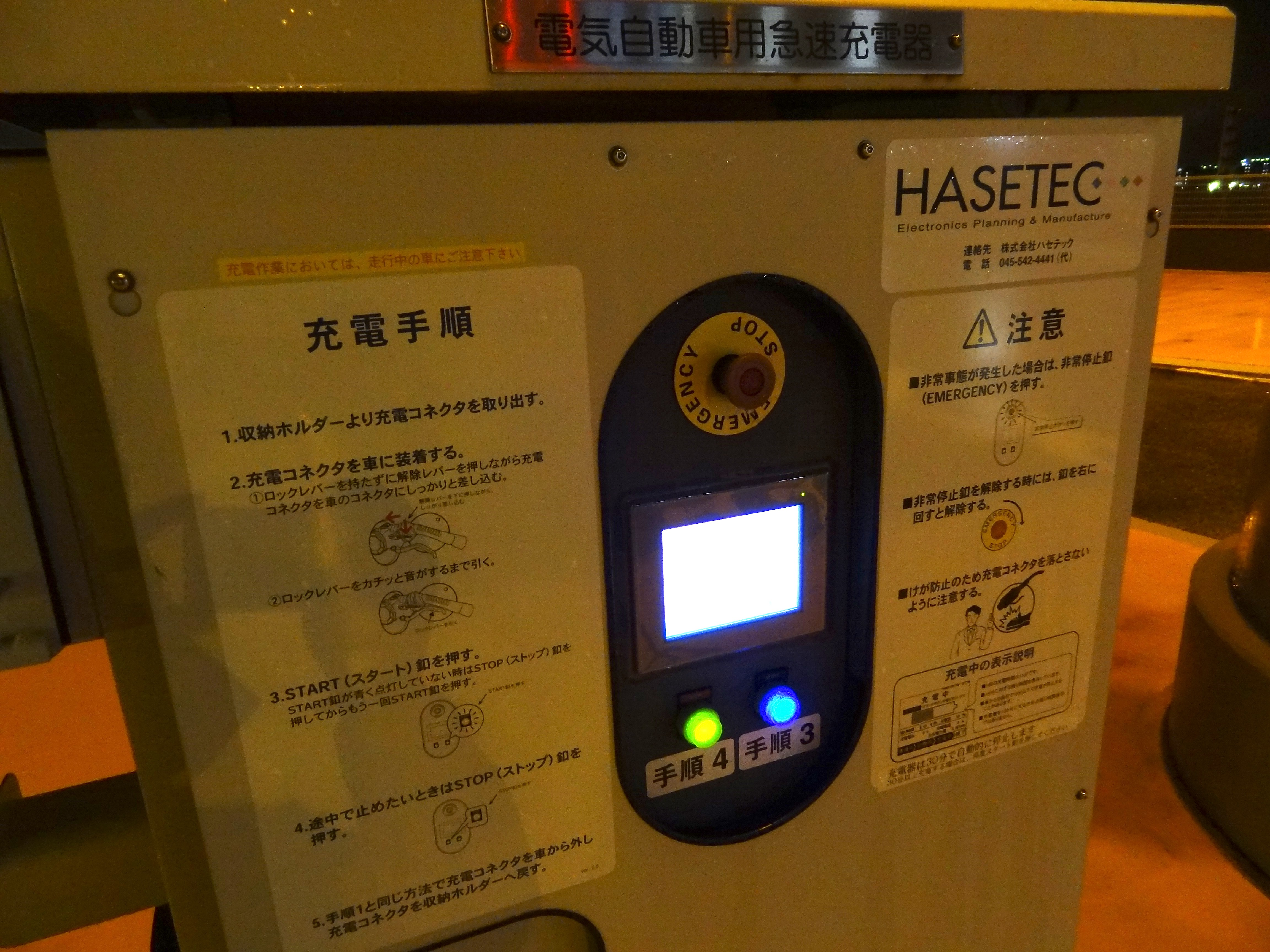 Electric vehicle charger by Hasetec installed at Nakajima Parking Area